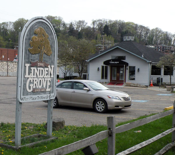 Picture of Linden Grove located at 1100 Grove Road in Castle Shannon, Pennsylvania, on April 11, 2010. The sign says, "The Linden Grove - Since 1872 - Fun Place To Meet & Eat". This site was once listed on the National Register of Historic Places (NRHP), but was delisted on January 20, 2000. I figure the reason it was removed from the NRHP is because the structure that was originally there was demolished. The current building there is a more recent construction called "The Linden Grove Nightclub". The original "Linden Grove was built as an attraction to German picnickers, as were several other groves patronized by various ethnic groups. Wagons with benches met picnickers at the train station and took them to whichever grove catered to their nationality."[1][2] "Linden Grove (Building - #87001970) Also known as The Grove, at Grove Rd. at Library Rd. & Willow Ave., Castle Shannon, PA. Historic Significance: Event, Architecture/Engineering. Area of Significance: Architecture, Entertainment/Recreation. Period of Significance: 1850-1874, 1875-1899, 1900-1924. Owner: Private. Historic Function: Commerce/Trade, Domestic, Recreation And Culture."[3]